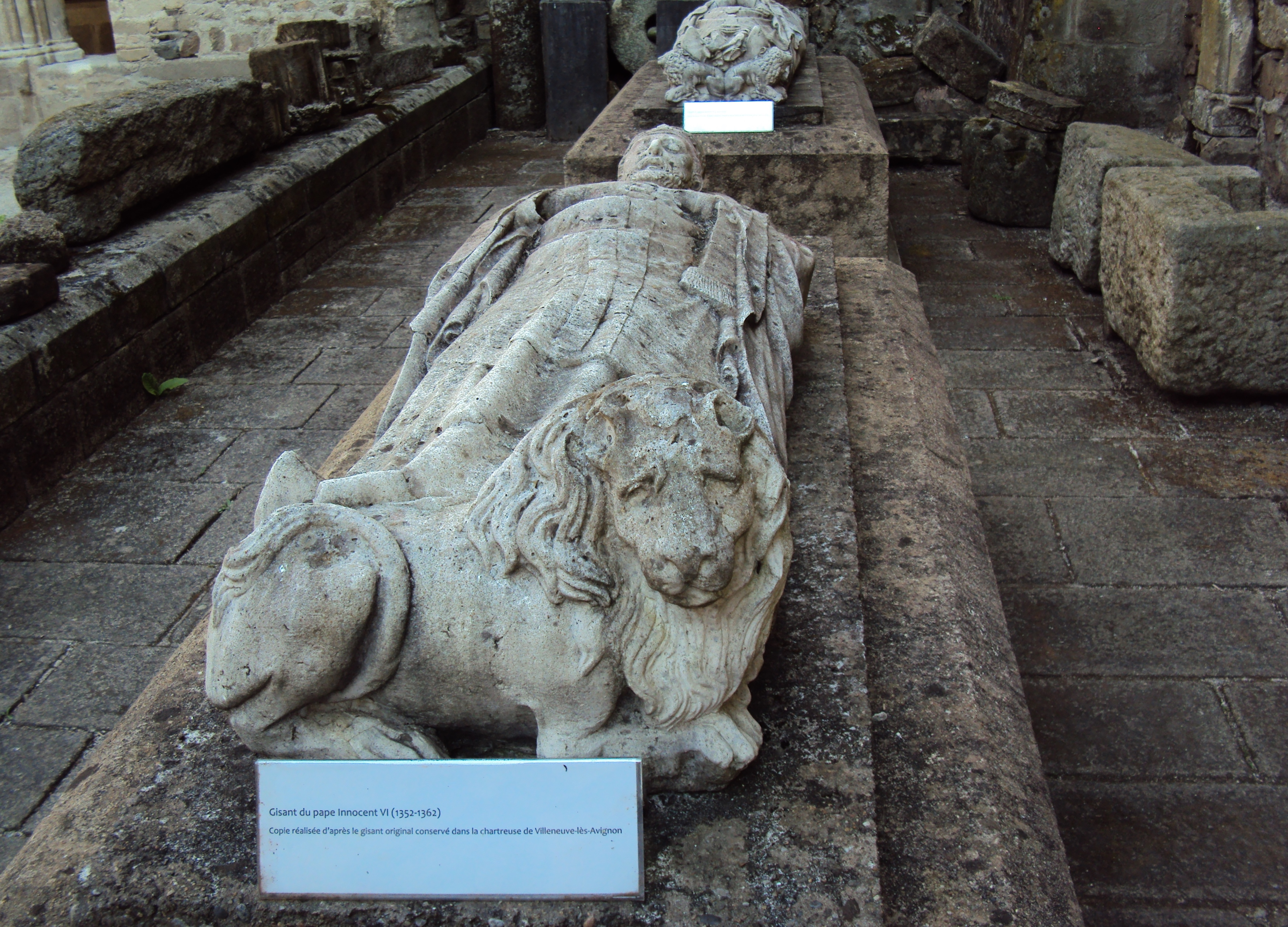 Recumbent statue of Pope Innocent VI in the musée du Cloître of Tulle. It is based on the original statue located in the Chartreuse Notre-Dame-du-Val-de-Bénédiction.